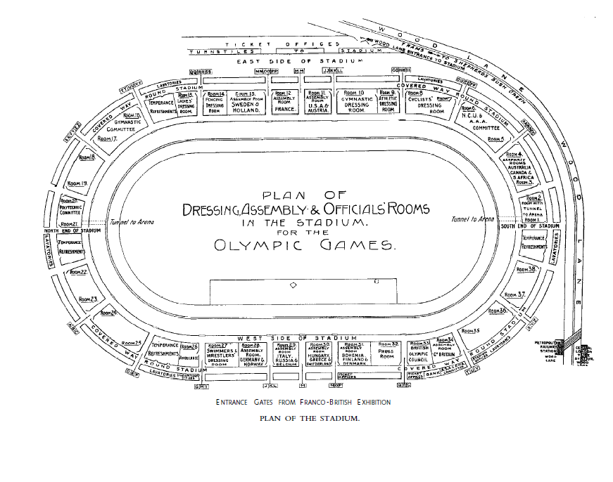 Plan of White City Stadium